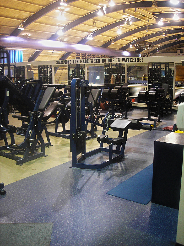 Fitzgerald Field House weight training facility at the University of Pittsburgh